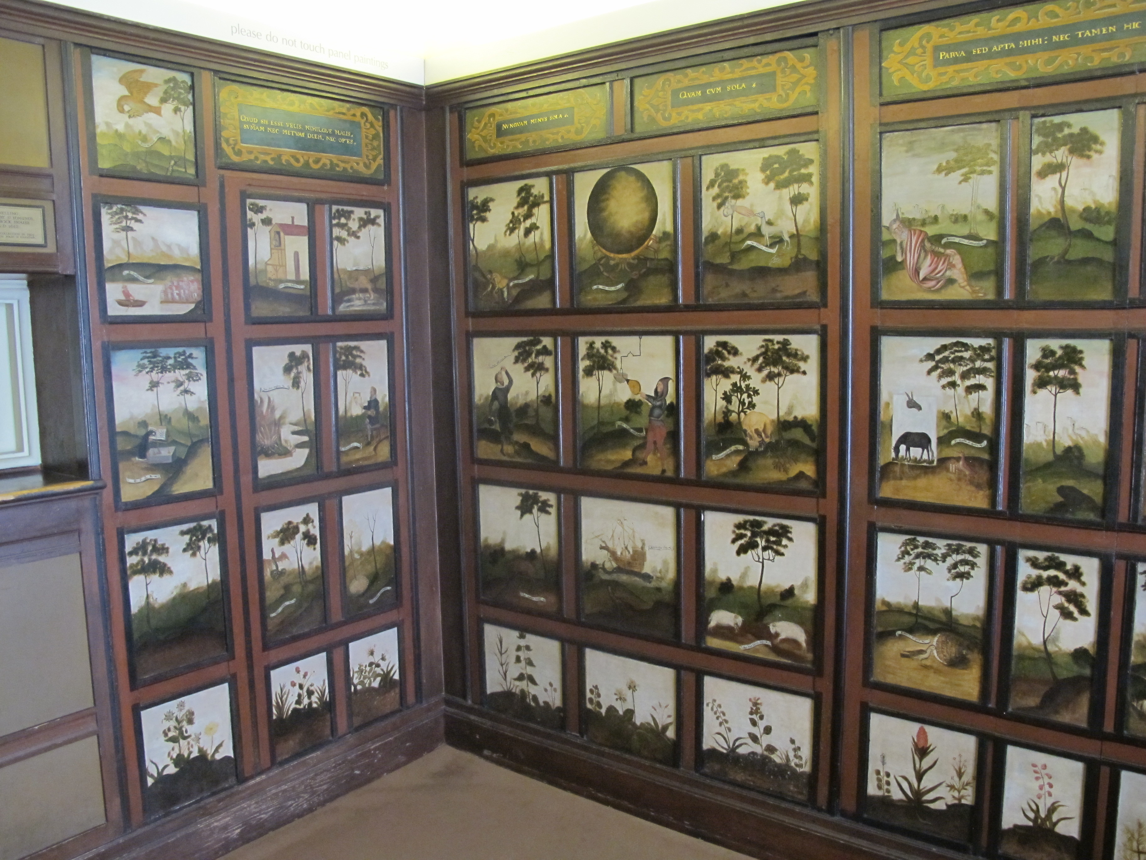 View of the paintings from Lady Elizabeth Drury's Closet at Hawstead, Suffolk, painted before 1615, and afterwards moved to Hardwick House near Bury St Edmunds, before purchase in 1924 for the Ipswich Museums where they are now housed in the public collections at Christchurch Mansion.